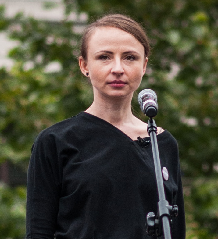 Agnieszka Dziemianowicz Bąk of Partia Razem at the October 10, 2016 protest against restrictive abortion law in Poland.